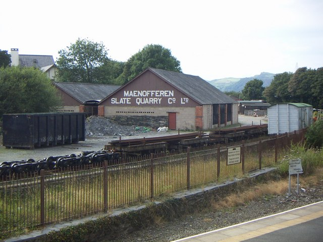 The old Maenofferen slate sidings, originally used to transfer slate from the Ffestiniog Railway to the mainline trains. This photo taken from Minffordd Railway Station.